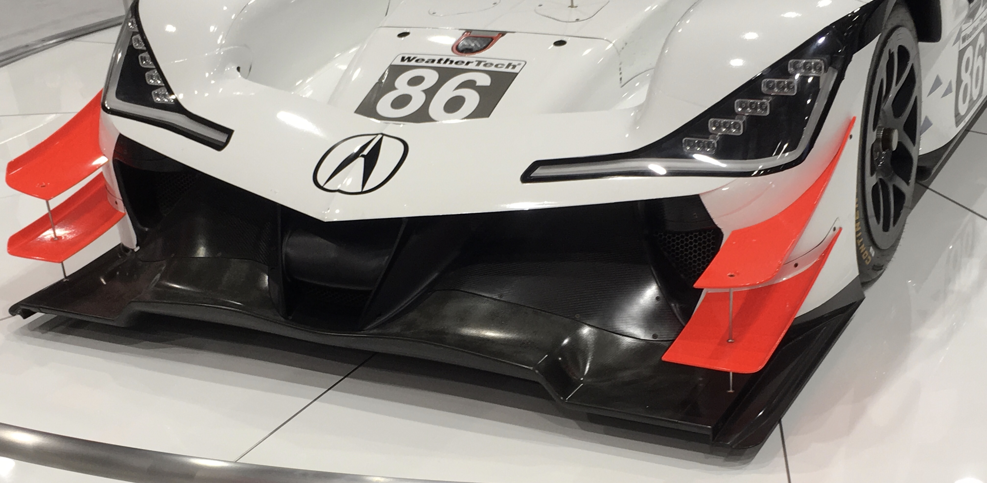 Acura ARX-05 race car